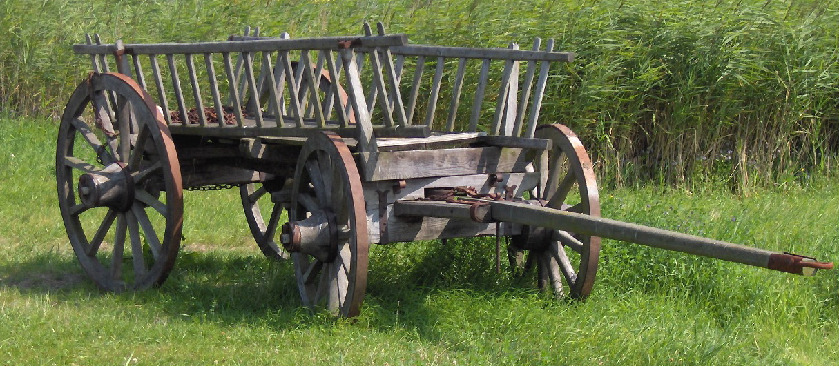 hay wagon; c. 1465; at the archeological site of Walraversijde, near Oostende, Belgium